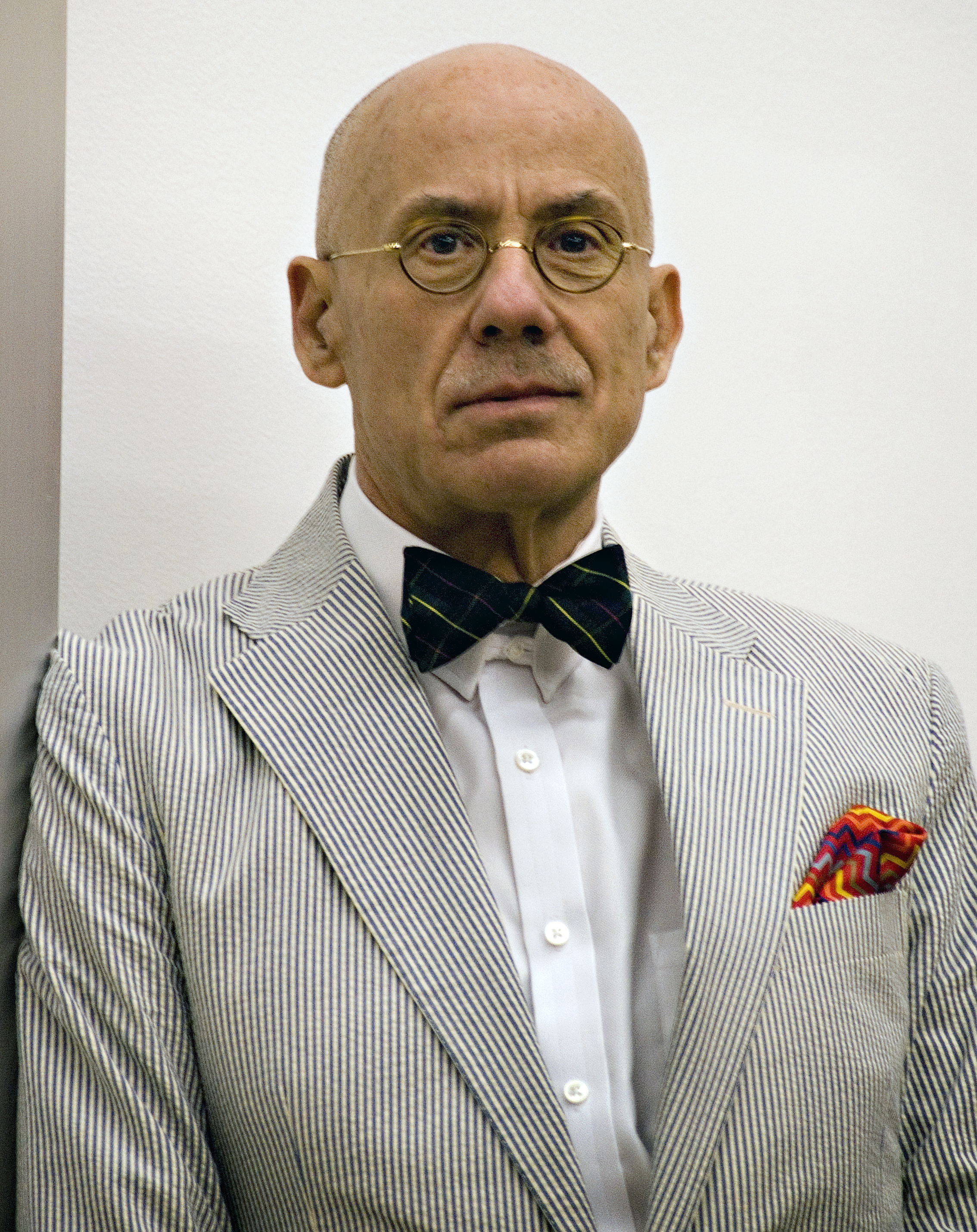 James Ellroy at the LA Times Festival of Books.